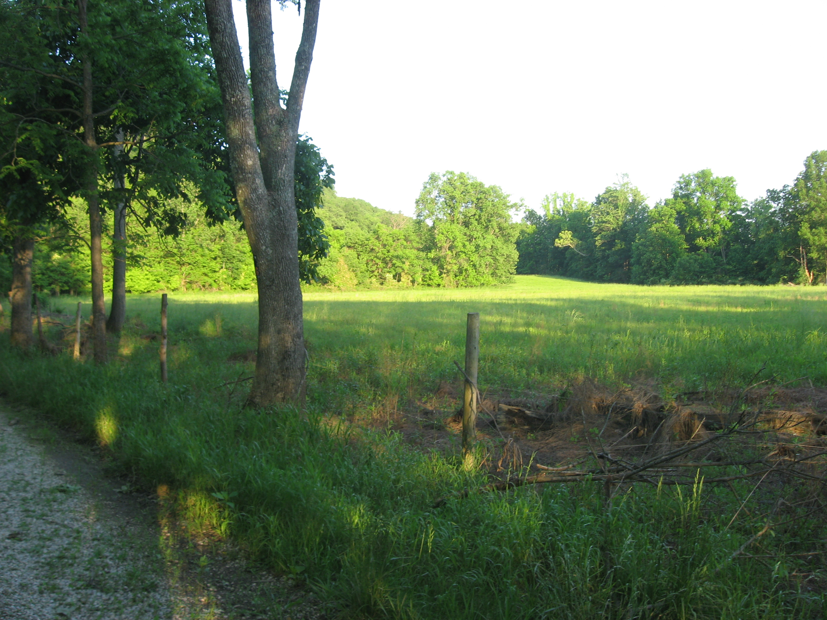 A field on the southern edge of the Swan's Landing Archeological Site, located on the Ohio River at the end of Lickford Bridge Road north of New Amsterdam in Washington Township, Harrison County, Indiana, United States. Once used by Early Archaic peoples as a factory for stone tools, it is one of the most important Early Archaic archaeological sites in eastern North America. It is listed on the National Register of Historic Places.